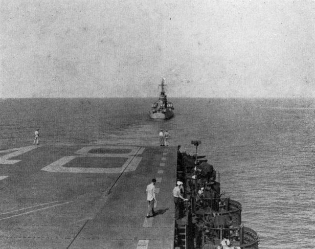 The U.S. Navy heavy cruiser USS Oregon City (CA-122) tows the light aircraft carrier USS Saipan (CVL-48) during a towing exercise in the Caribbean Sea, in April 1947.